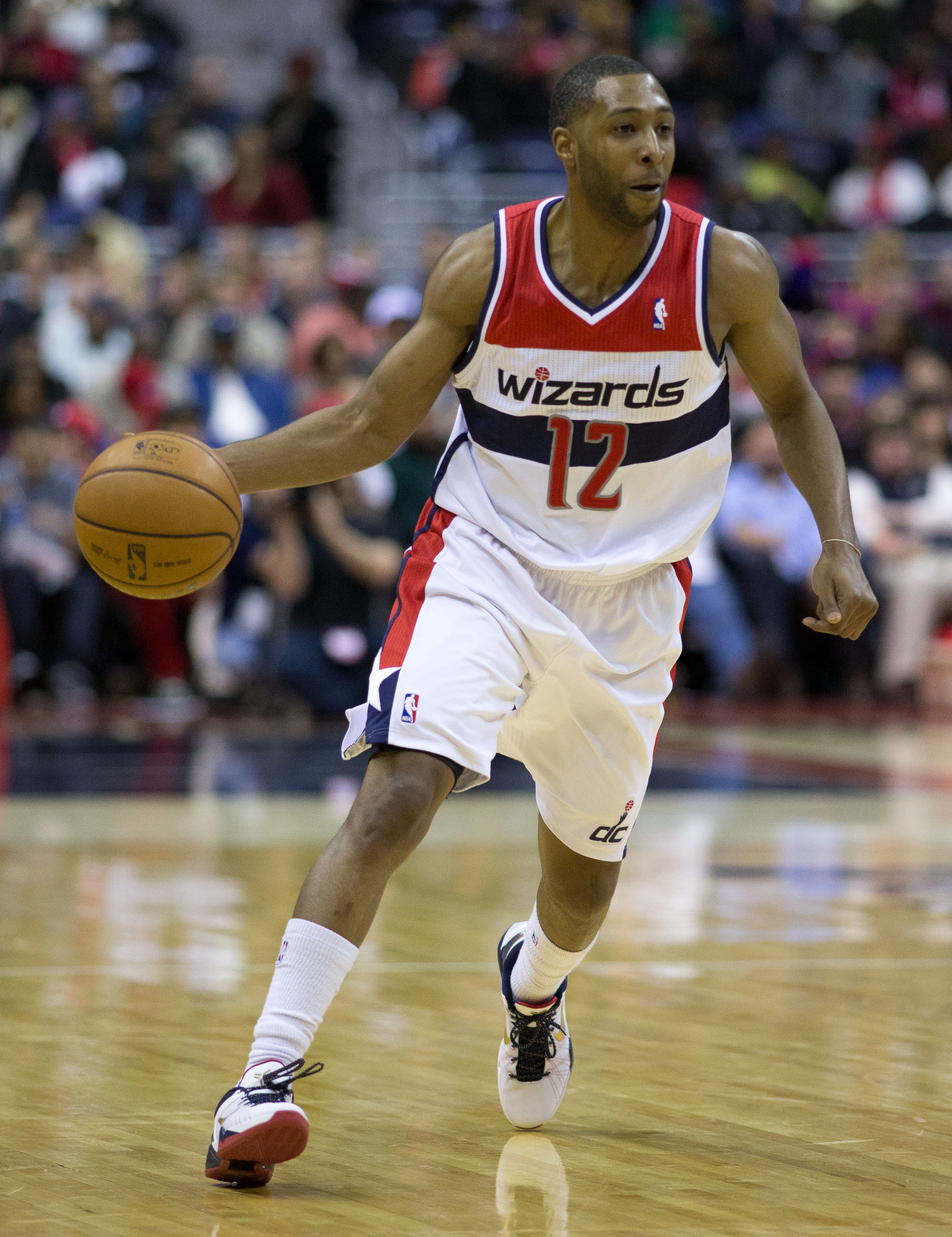 Philadelphia 76ers at Washington Wizards March 3, 2013